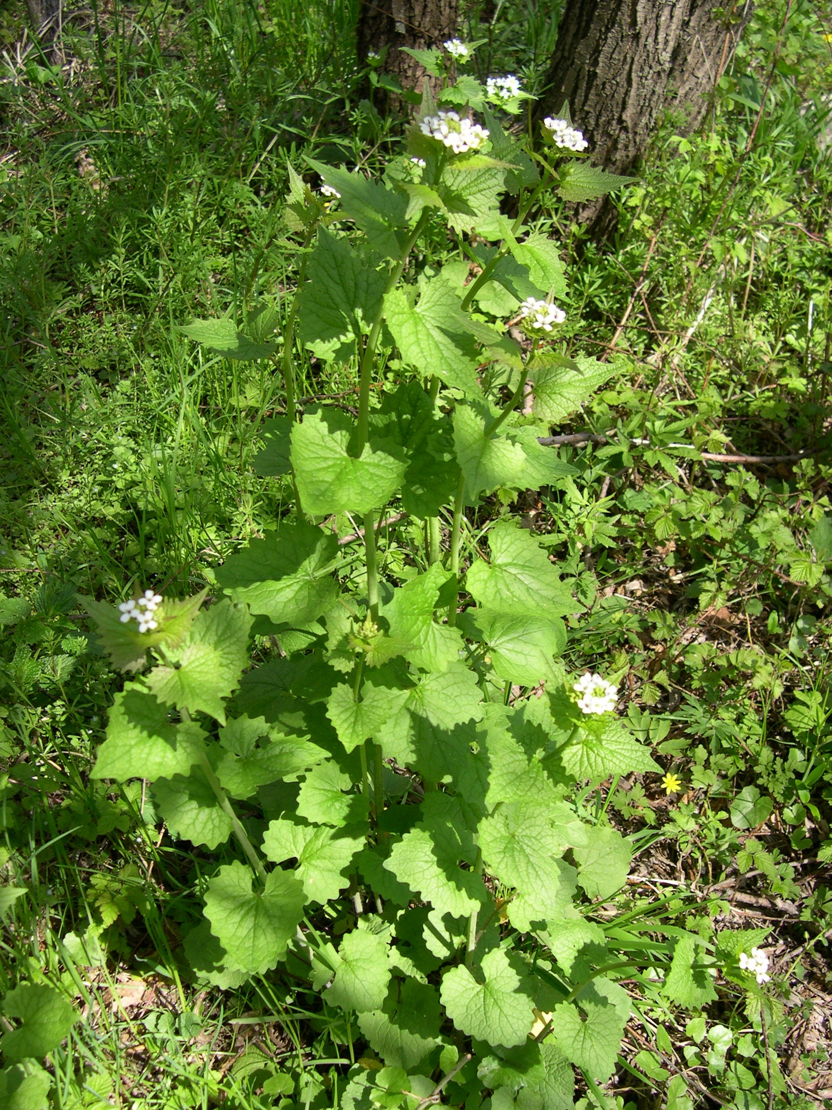 Alliaria petiolata (M.Bieb.) Cavara & Grande